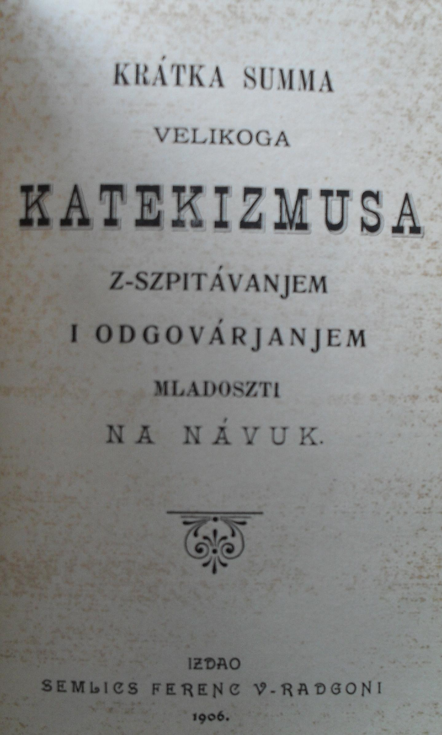 The Krátka summa velikoga katekizmusa (Small tenet of the Great Cathecism), the new issue of the Miklós Küzmics's cathecism from 1780 with the Szvéti evangeliomi in 1906. Rework of József Szakovics